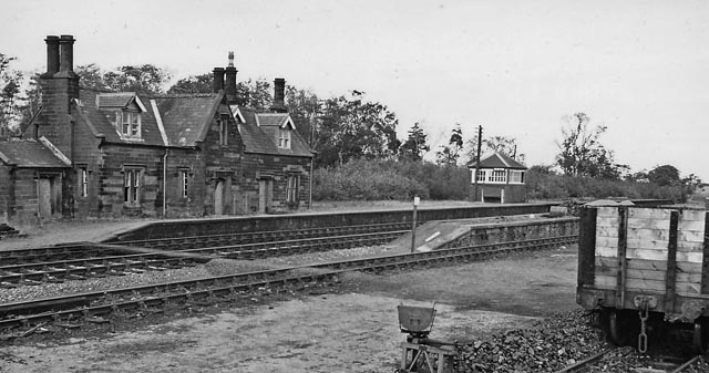 Brayton Station (remains). View NE, towards Carlisle (and former junction with SJR); ex-Maryport & Carlisle main line and junction with Solway Junction Railway (SJR). Brayton station closed to passengers on 5/6/50, to goods 27/9/65. The southern portion of the SJR from Brayton to Annan over the Solway Viaduct had been closed in 9/21. See also NY2162 : Bowness-on-Solway Station (converted). Note the rather striking architecture - and it seems that after 11 years the station here was 'privatised'.